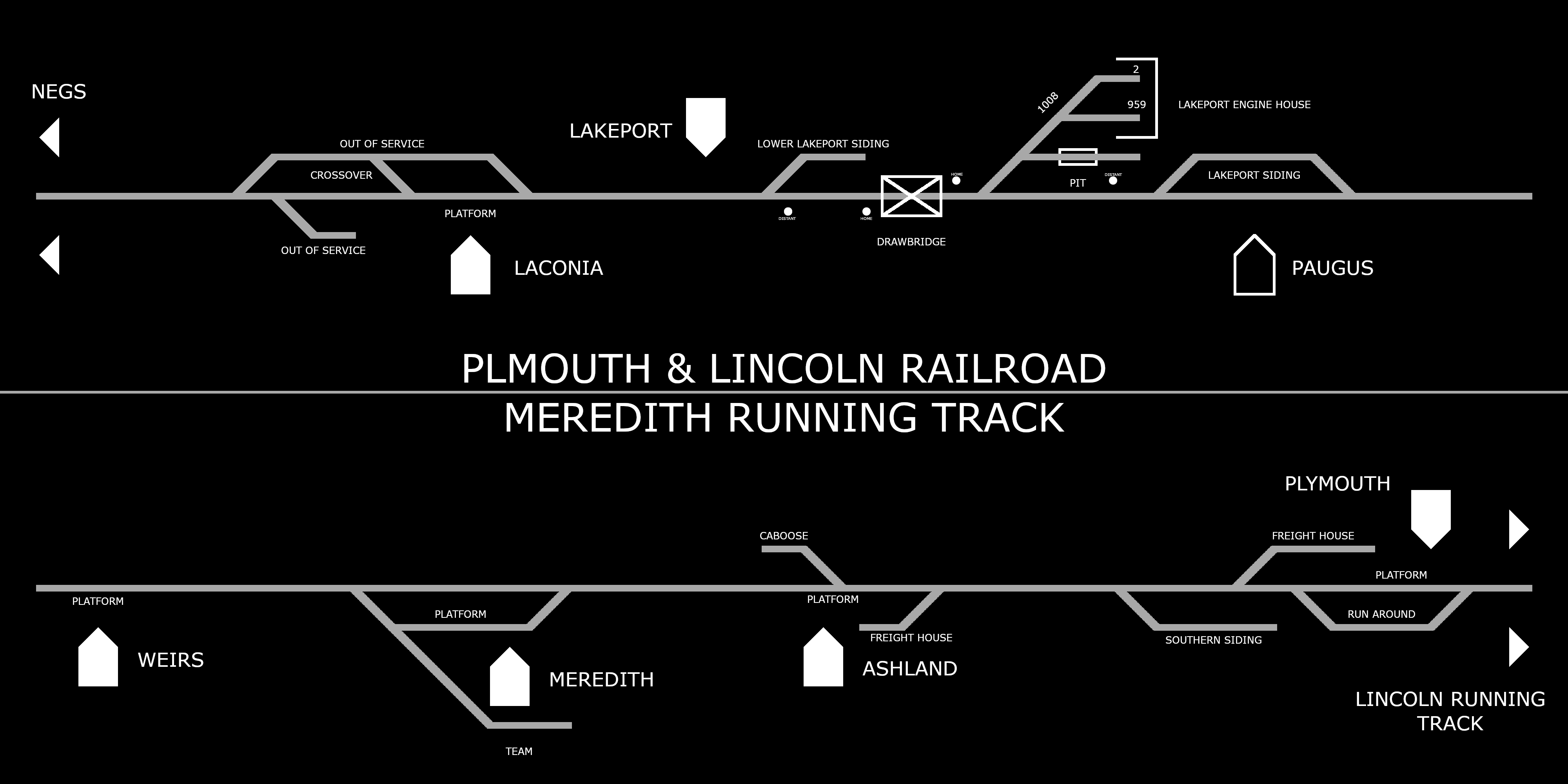 PLL Meredith Running Track Track Plan